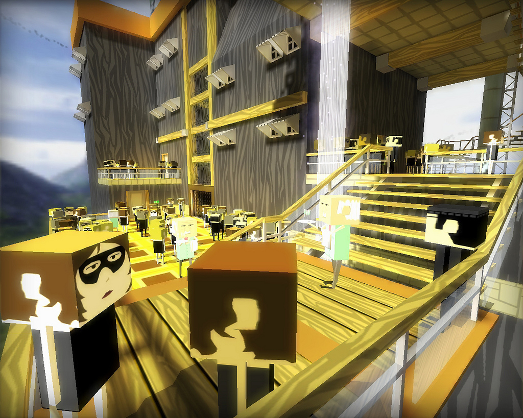 A screenshot of Gravity Bone, taken by the developer, Brendon Chung.